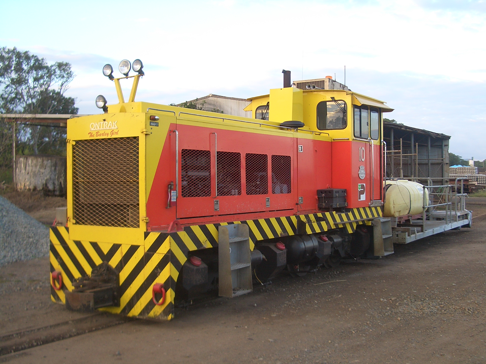 A narrow-gauge diesel loco (labeled, "The Barley Girl") parked on the sugarcane railway tracks at Proserpine Sugar Mill. It was built by EM Baldwin & Sons (Australia) in 1981, and rebuilt by Ontrak in 2003 following an collision